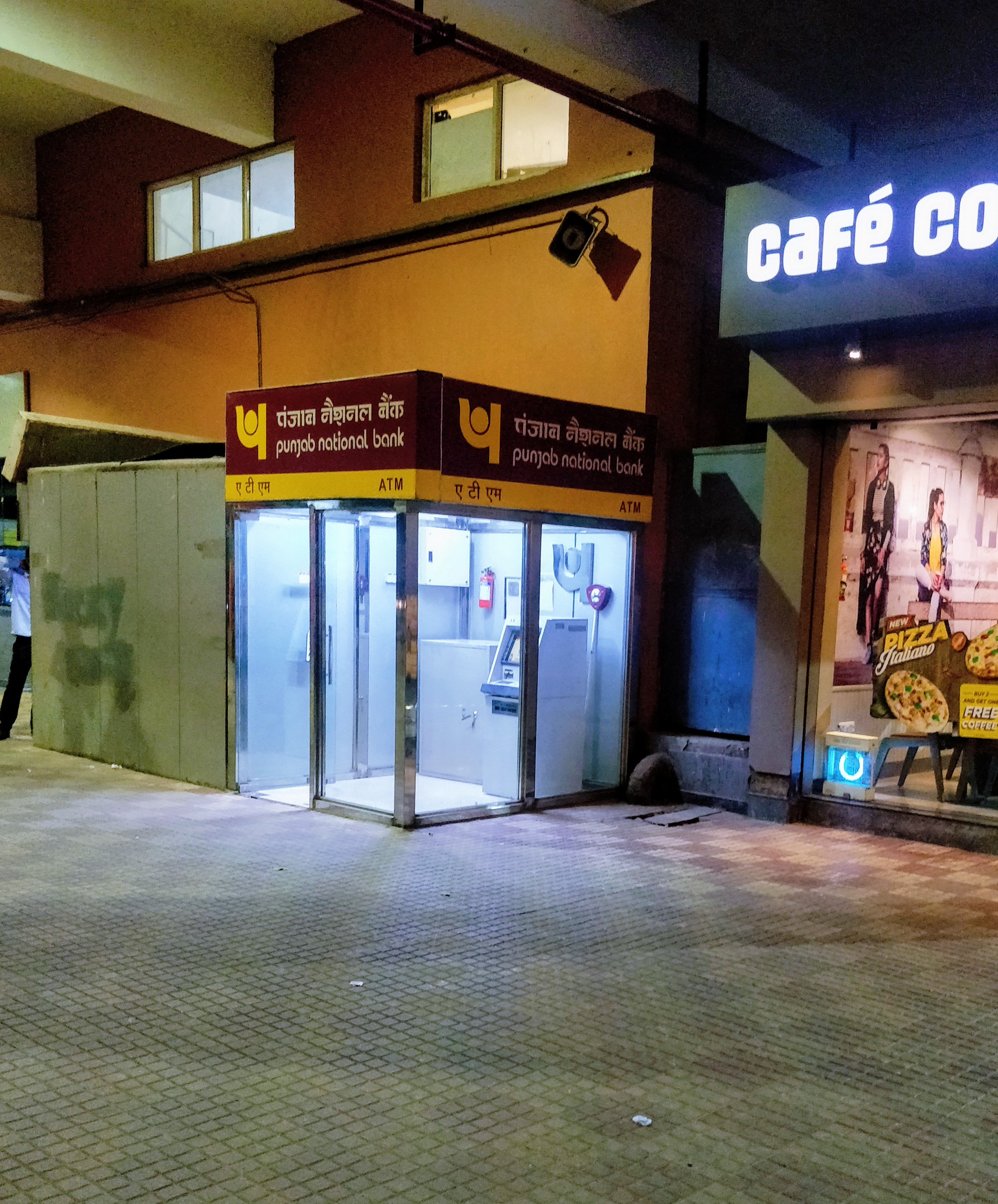 Punjab National Bank Metro Station, Delhi